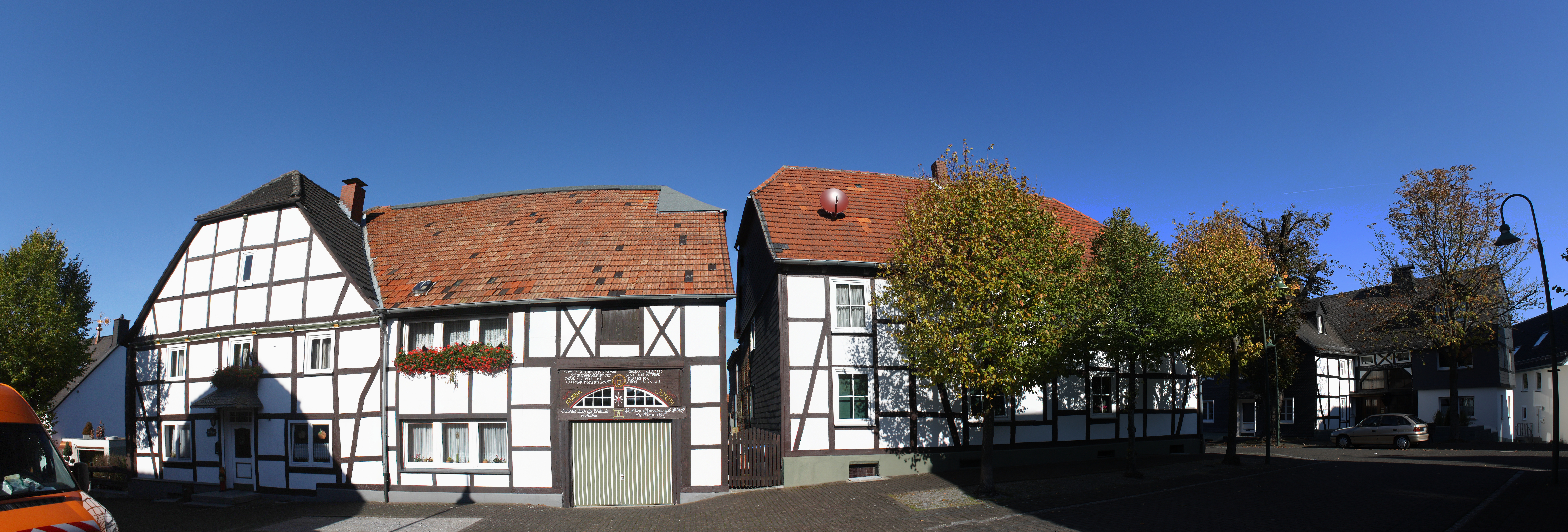 Half-timbered houses in the historical downtown of Belecke.